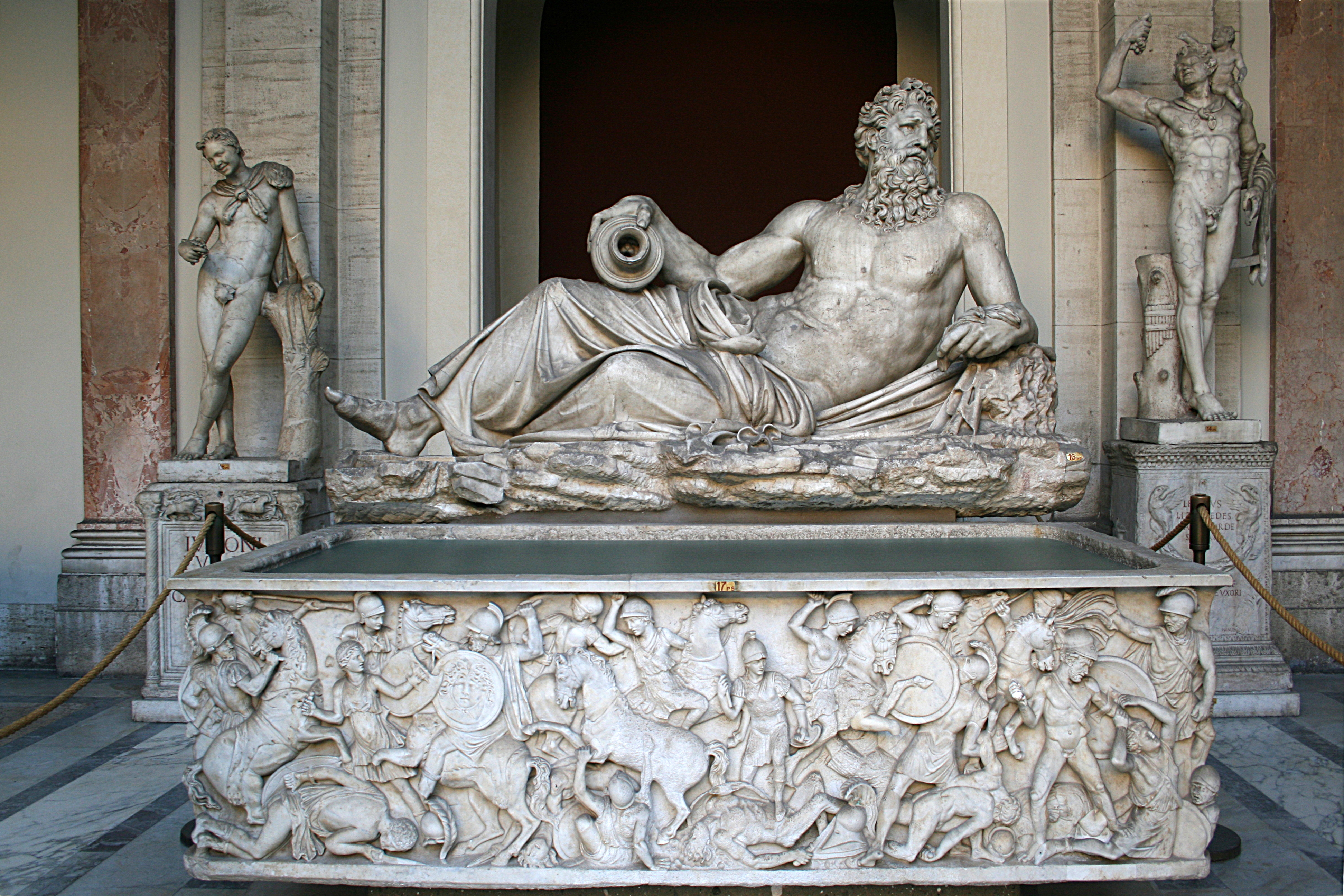 Ancient Roman statue of the Tigris river, restored in early 16th century by Montorsoli (who gave it the attributes of this river and marble sarcophagus, ca. 160–170 CE, showing a relief of an Amazonomachy and serving as basin for the Tigris fountain. Both sculptures are now exhibited in the "Cortile Ottagono" (Octagonal Courtyard) in the Museo Pio-Clementino (Vatican Museums).